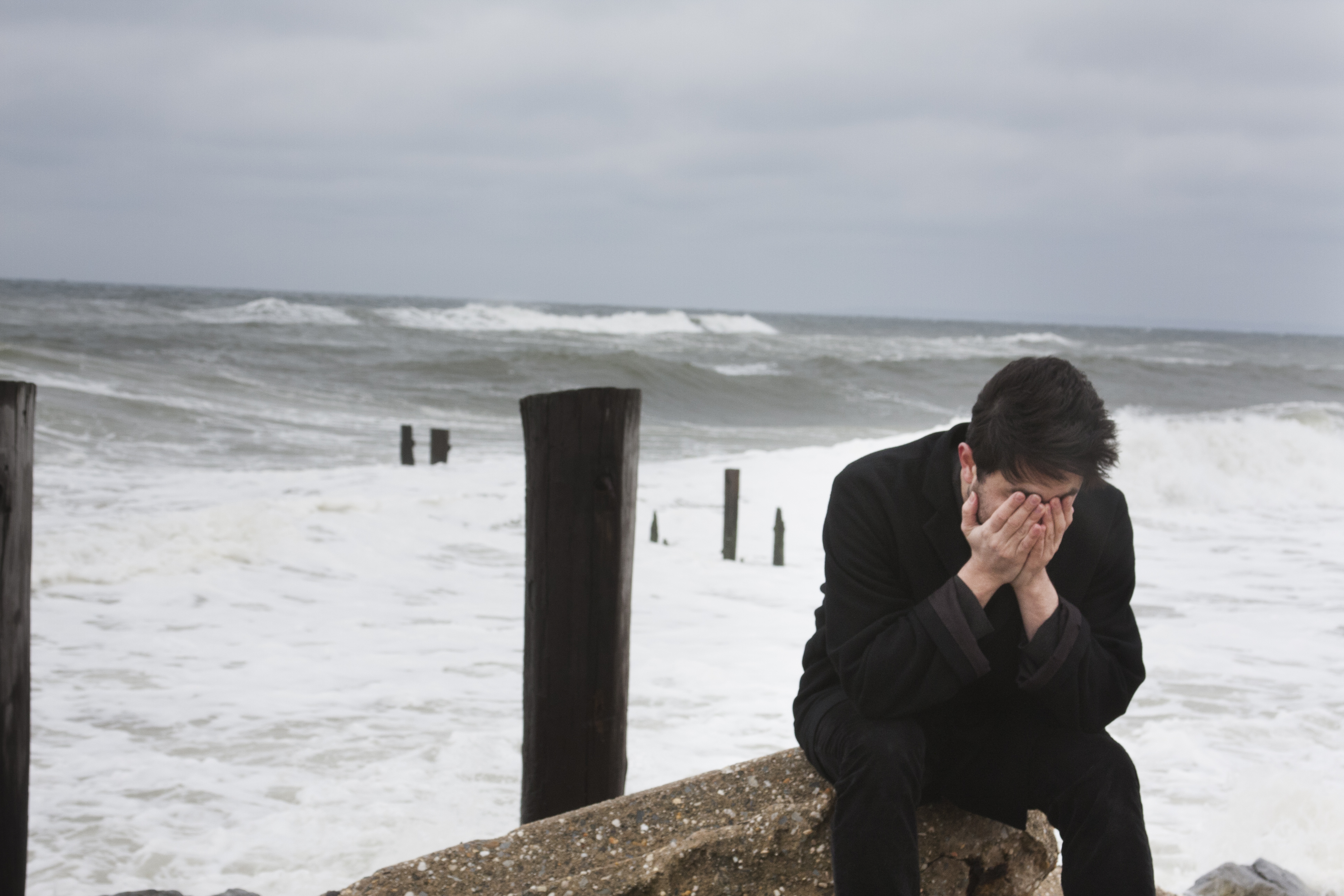 An image depicting profound sadness.